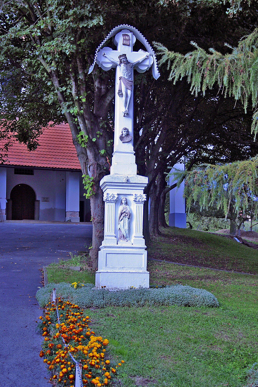 Bogojina Slovenia